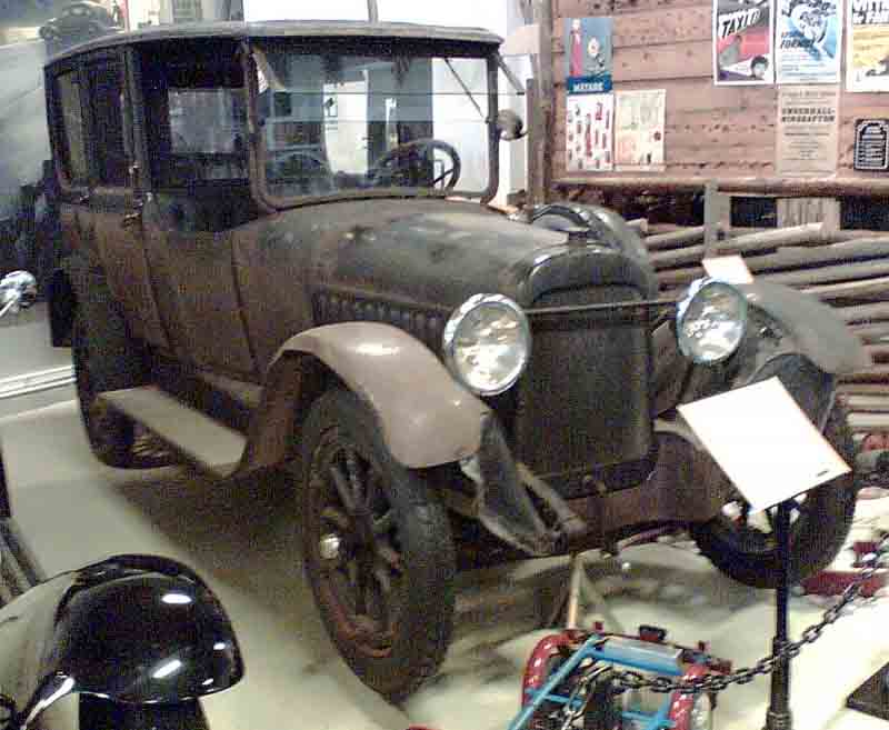 Chalmers 1917